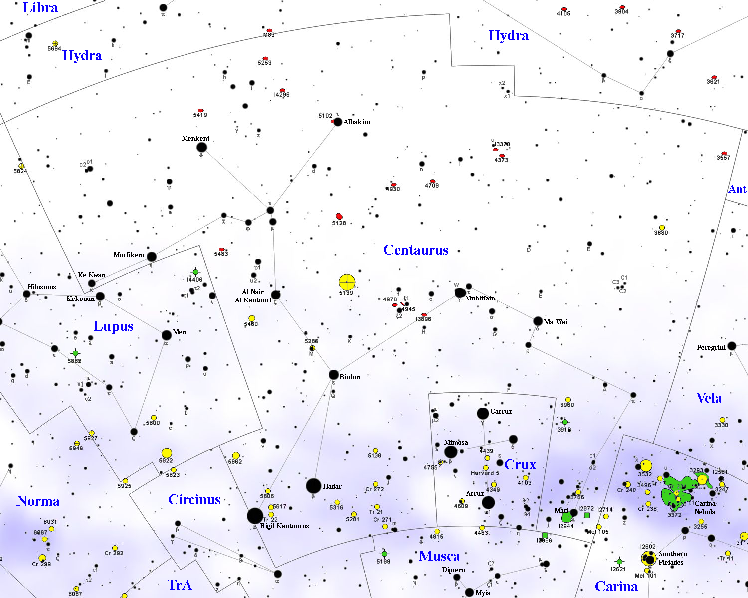 Centaurus constellation map, with DSOs